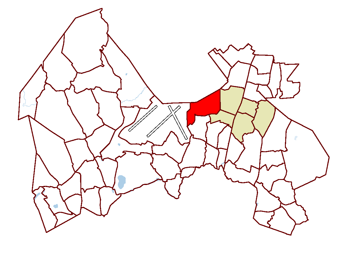 District of Ilola (marked red), within Koivukylä service area (marked light brown) in Vantaa, Finland